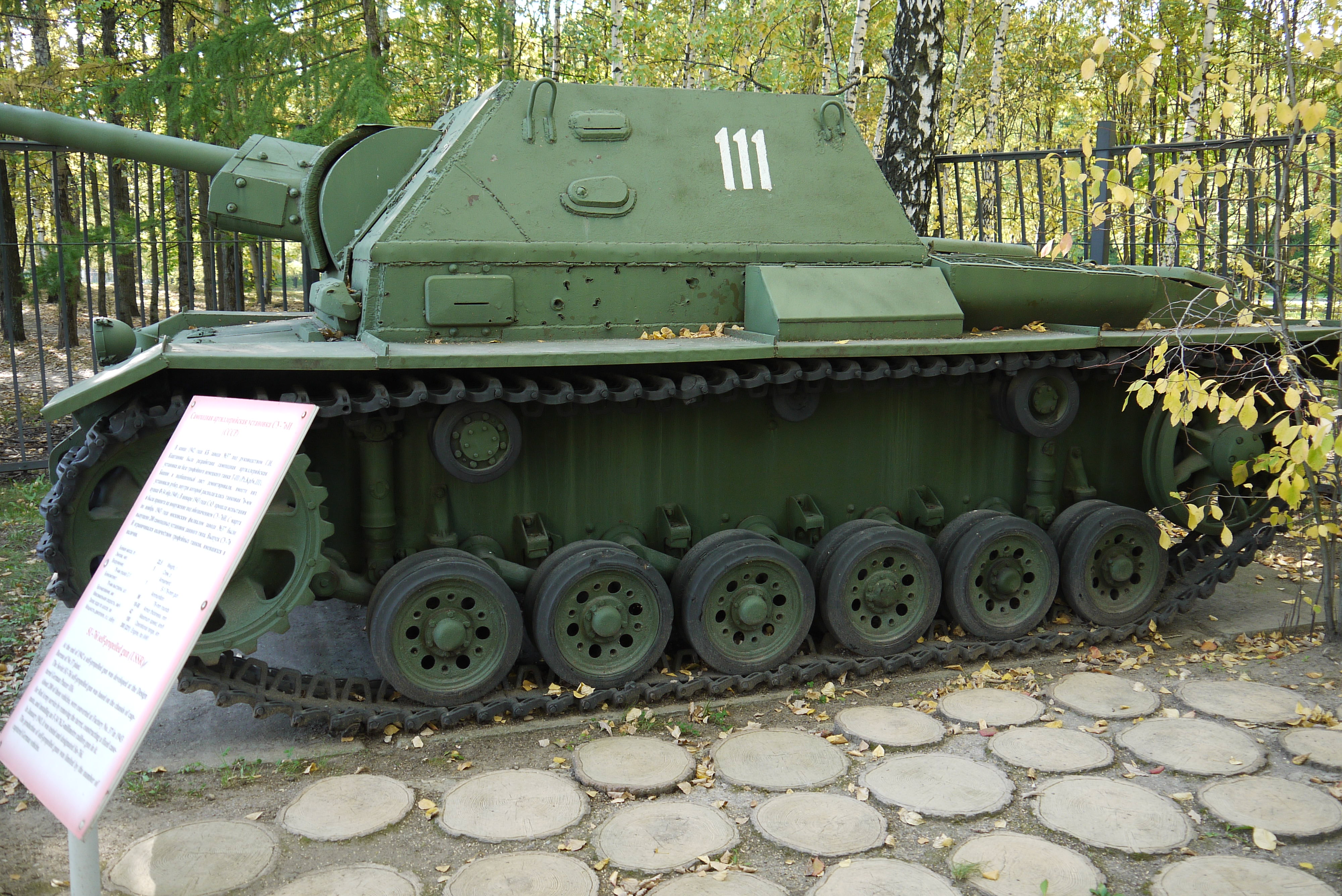 Soviet Su-76i self-propelled gun, built from a German Mark III tank. It is displayed in the Museum of the Great Patriotic War, Moscow, Poklonnaya Hill Victory Park